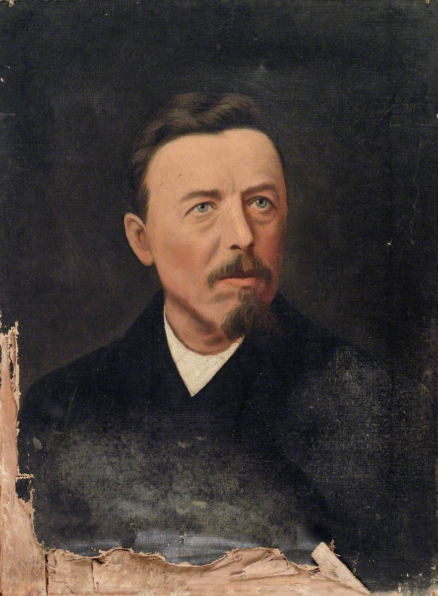 A painting from the Framed Works of Art collection at the National Library of wales.